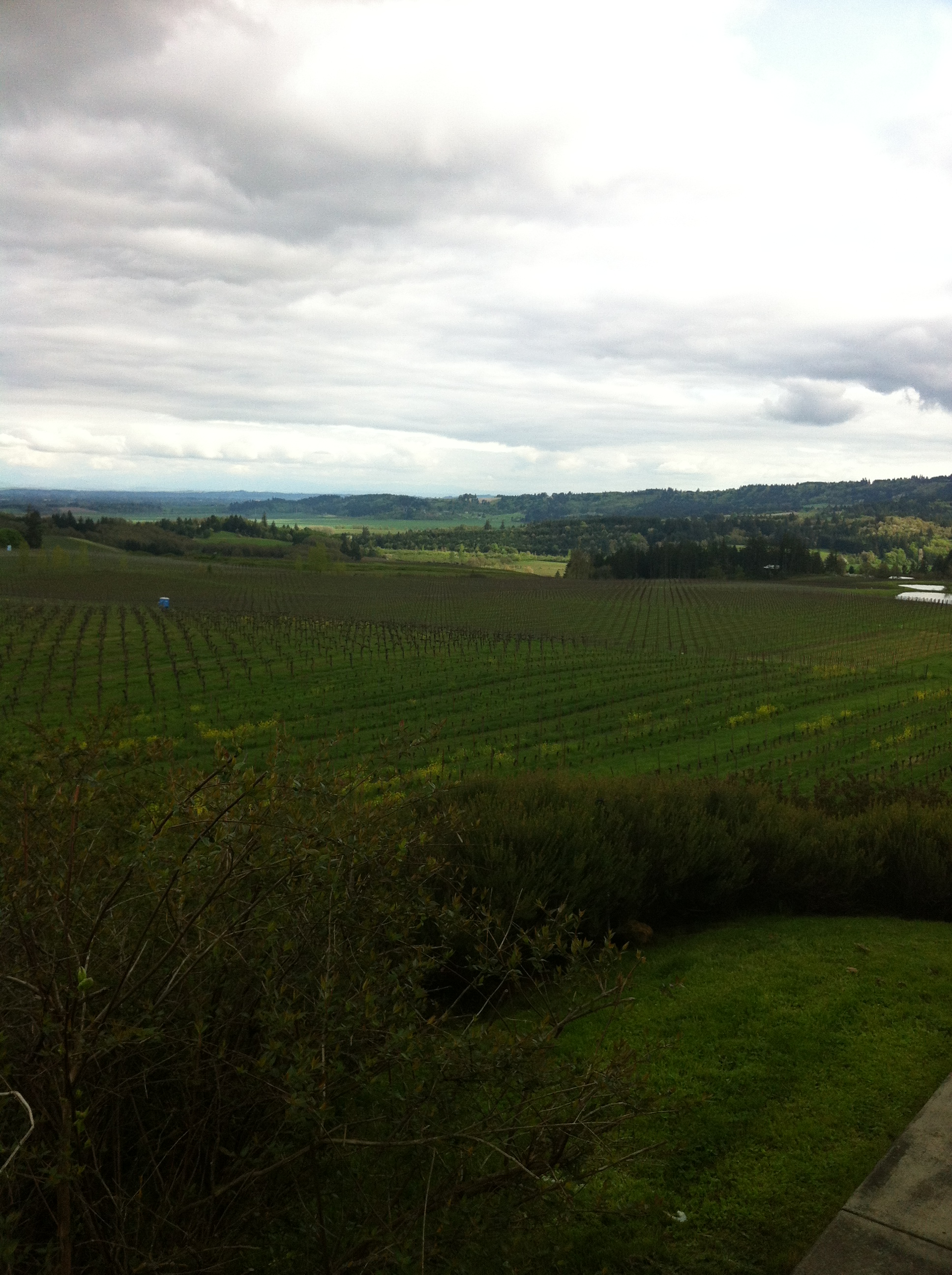 Vineyard in the Oregon wine region of the Eola-Amity Hills AVA